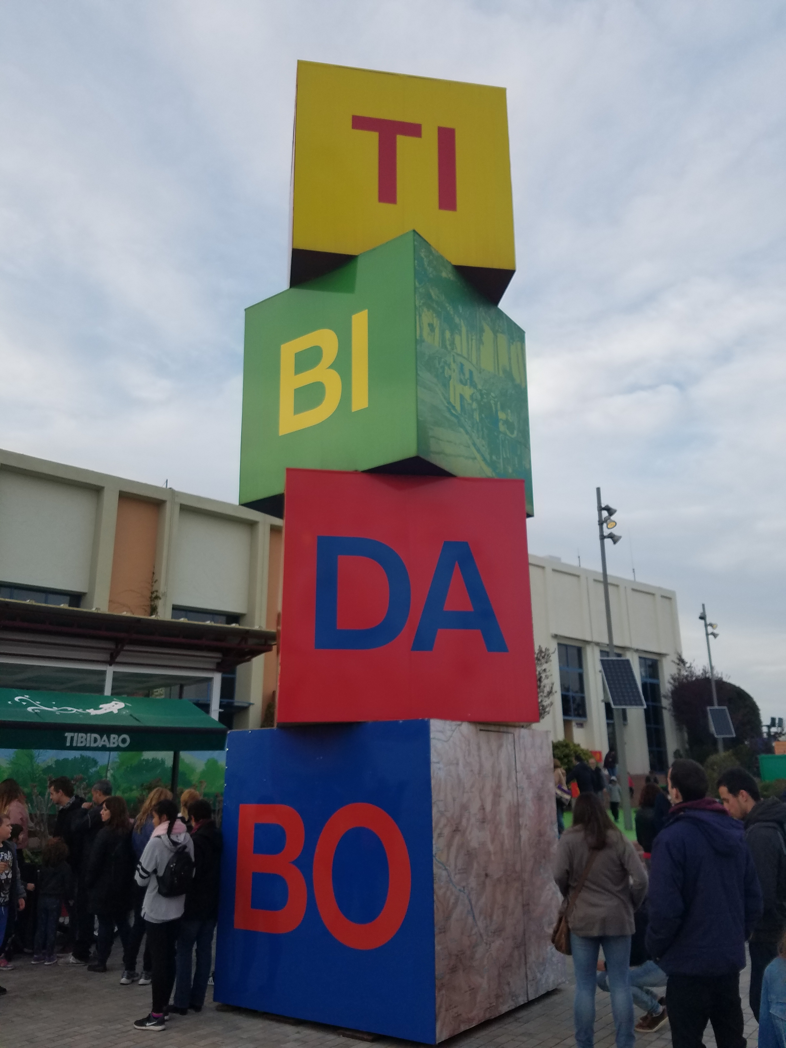 The blocks that spell out the name of the Tibidabo amusement park in Barcelona.